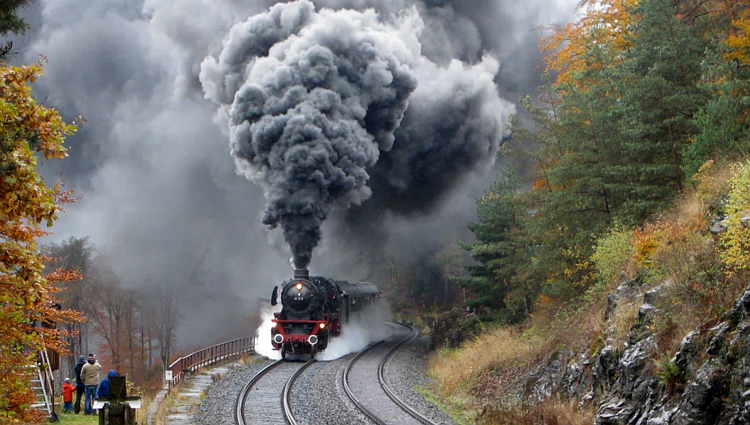 41 018 climbing the Schiefe Ebene, 01 1066 pushing